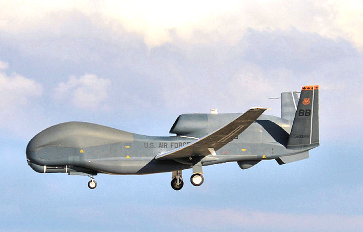 A U.S. Air Force RQ-4 Global Hawk unmanned aerial vehicle prepares to land as a MC-12 Liberty aircraft waits for takeoff at Beale Air Force Base, Calif., Jan. 25, 2013. (U.S. Air Force Photo by Mr. John Schwab/ Released)